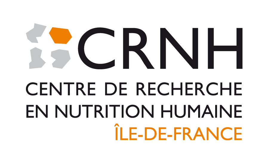 Logo CRNH Ile de France